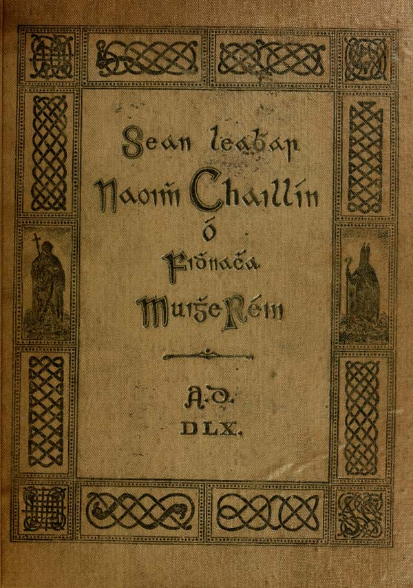 The digitized cover of the 1875 reproduction of the Book of Fenagh, relased under CC BY 4.0, courtesy of the National Library of Scotland.